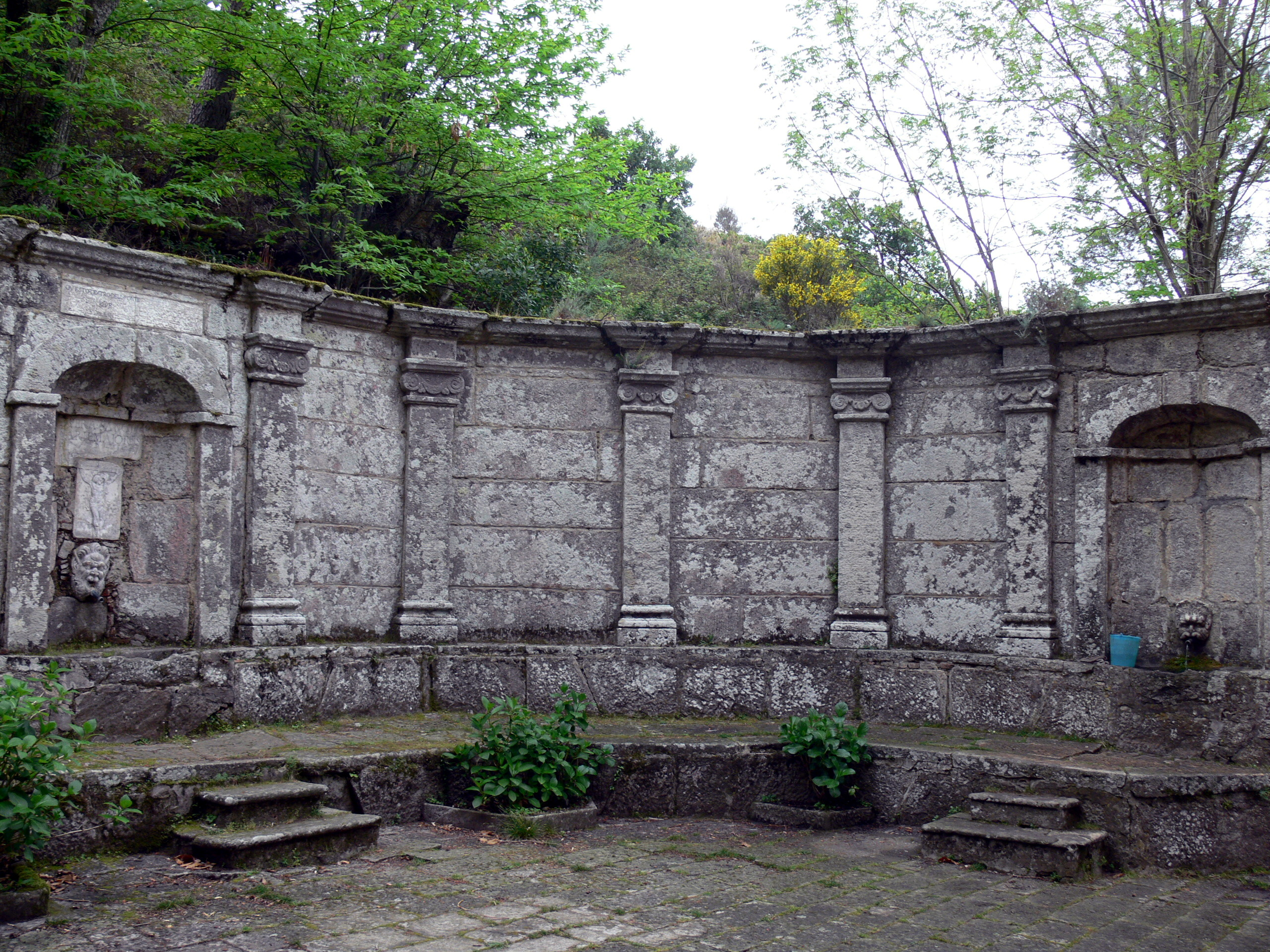 Madonna del Monte ( Elba ). Teatro delle Fontane ( Fountain court ).